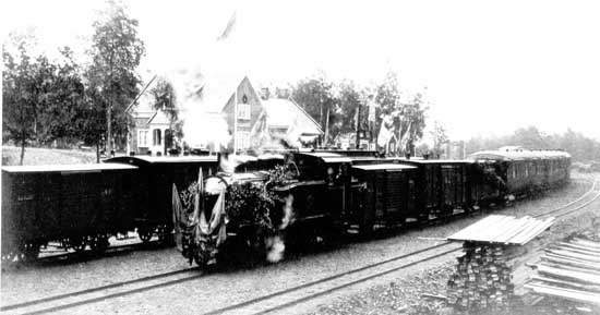 Swedish railway station Älghultsby, Ruda-Älghults Järnväg